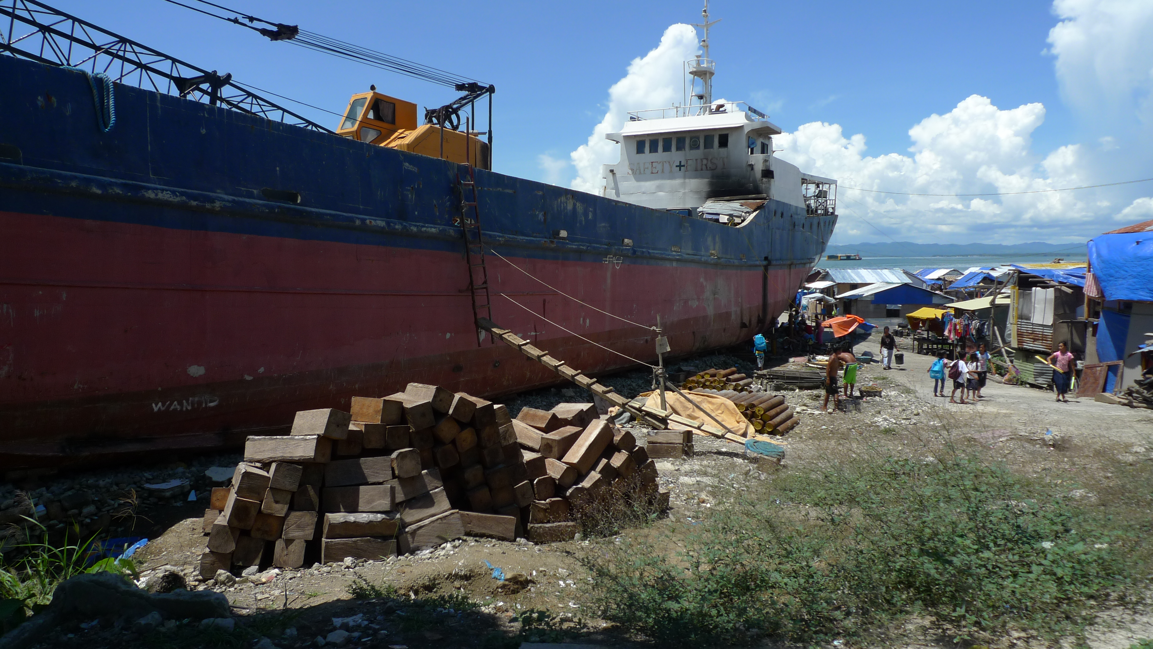 One of the 8 ships washed ashore at Anibong District, Tacloban City during Typhoon Haiyan.